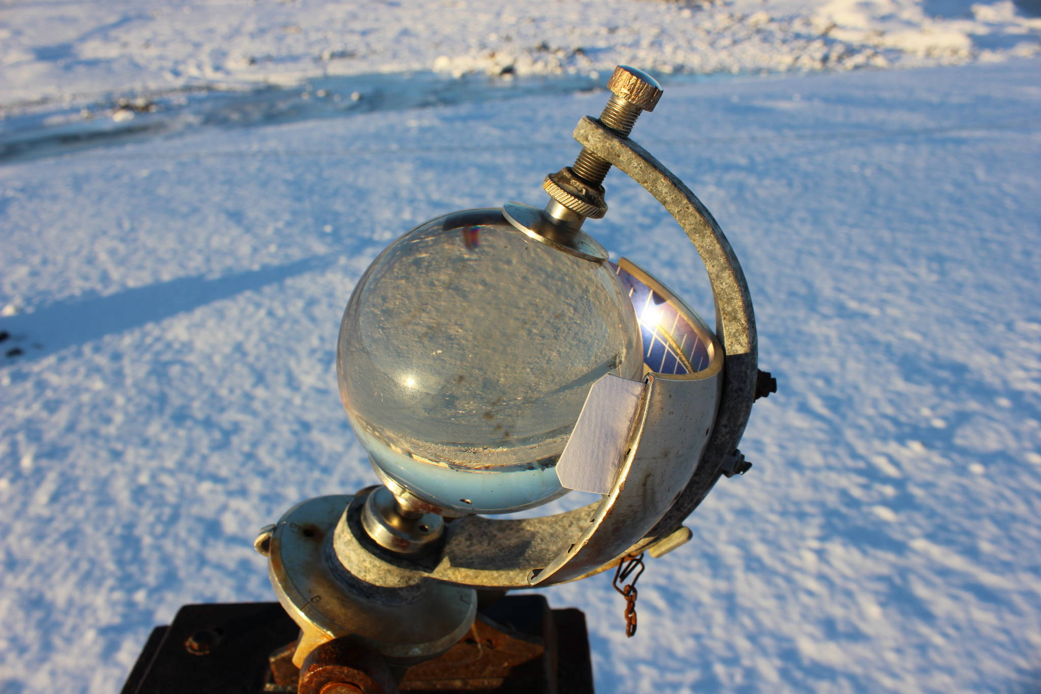 Heligoraph as Sunshine recorder (not heliograph as a communication device using sunlight reflection).